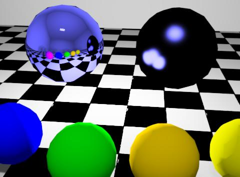 Sample of glossy reflection. Model created with Google SketchUp. Rendered with IRender nXt.